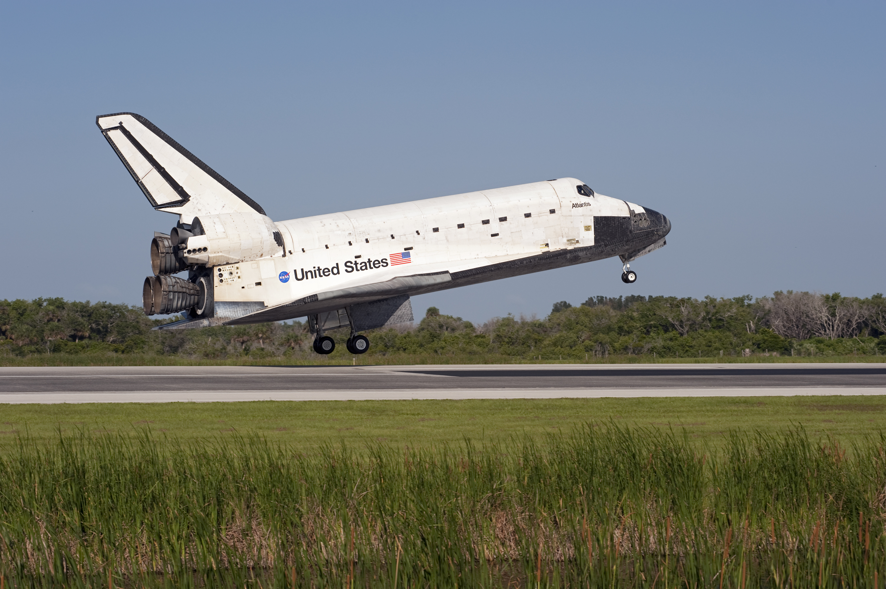 Space shuttle Atlantis nears touchdown on Runway 33 at the Shuttle Landing Facility at NASA's Kennedy Space Center in Florida. Landing was at 8:48 a.m. EDT, completing the 12-day STS-132 mission to the International Space Station. Main gear touchdown was at 8:48:11 a.m. EDT, followed by nose gear touchdown at 8:48:21 a.m. and wheelstop at 8:49:18 a.m. On board are Commander Ken Ham, Pilot Tony Antonelli, Mission Specialists Garrett Reisman, Michael Good, Steve Bowen and Piers Sellers. The six-member STS-132 crew carried the Russian-built Mini Research Module-1 to the International Space Station. STS-132 is the 34th shuttle mission to the station, the 132nd shuttle mission overall and the last planned flight for Atlantis.